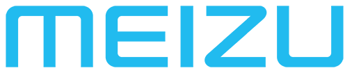 The 2015 logo of Meizu.